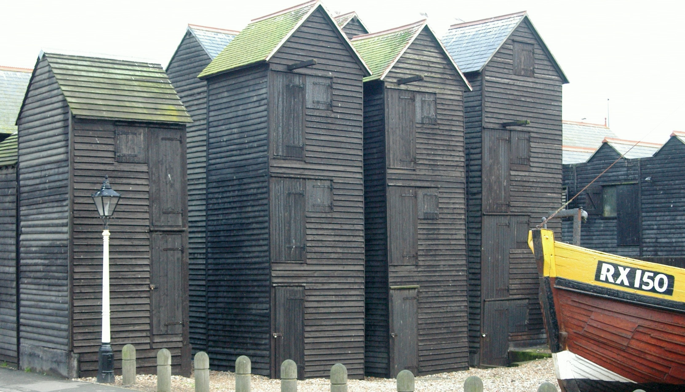 The "Net shops" (wooden buildings used by fishermen to store their nets) on The Stade, Hastings, Sussex.